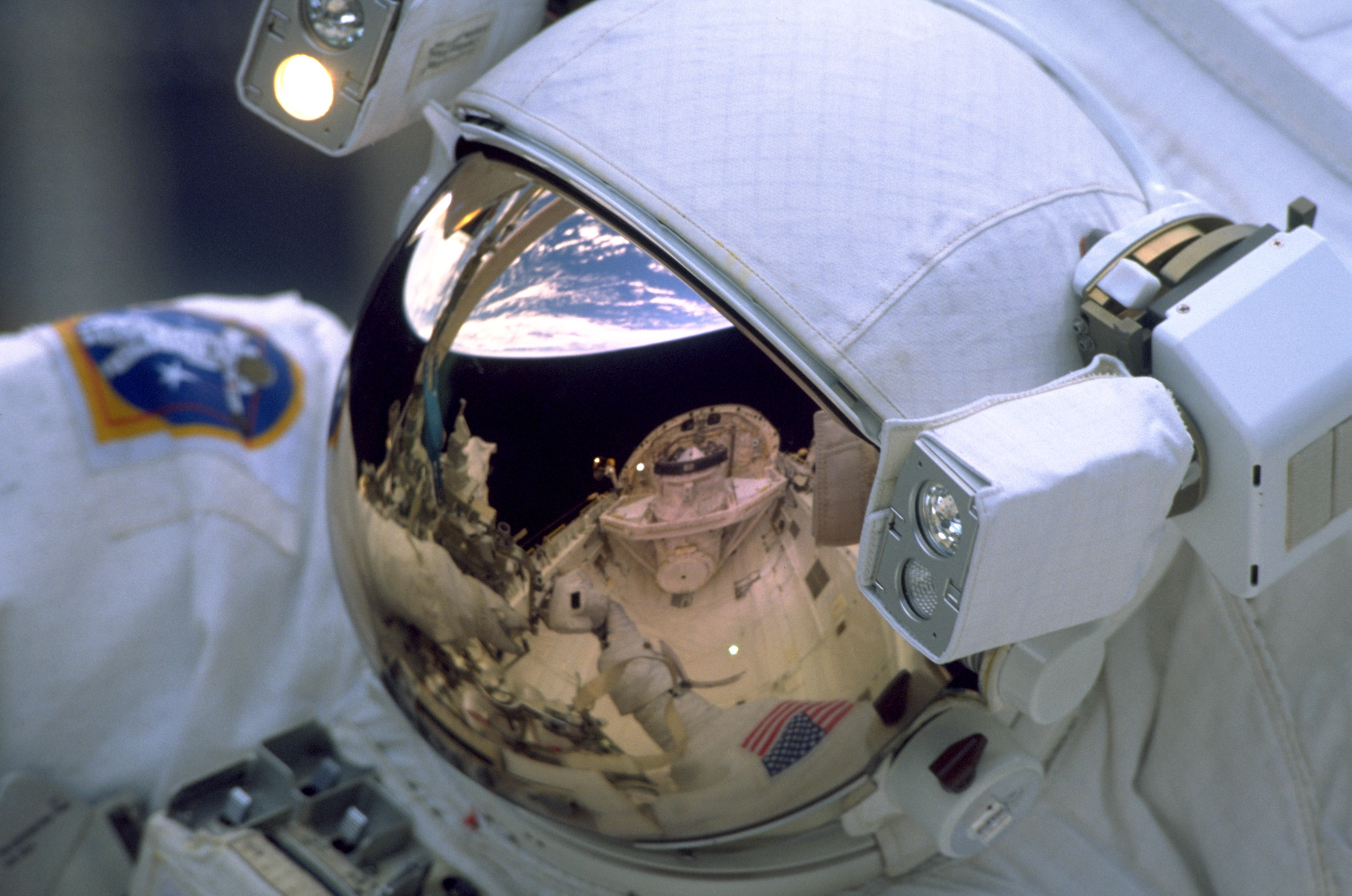 The Space Shuttle Discovery's Cargo Bay and Crew Module, and the Earth's horizon are reflected in the helmet visor of one of the space walking astronauts on STS-103. Astronauts Steven L. Smith, John M. Grunsfeld, C. Michael Foale and Claude Nicollier participated in three days of extravehicular activity on the NASA's third servicing visit to the Hubble Space Telescope (HST).